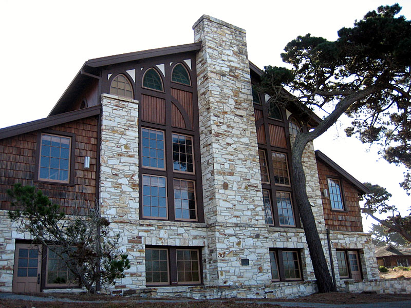 Merrill Hall, on the grounds of Asilomar Conference Center in Pacific Grove, California, was designed and contstructed by architect Julia Morgan in 1928.